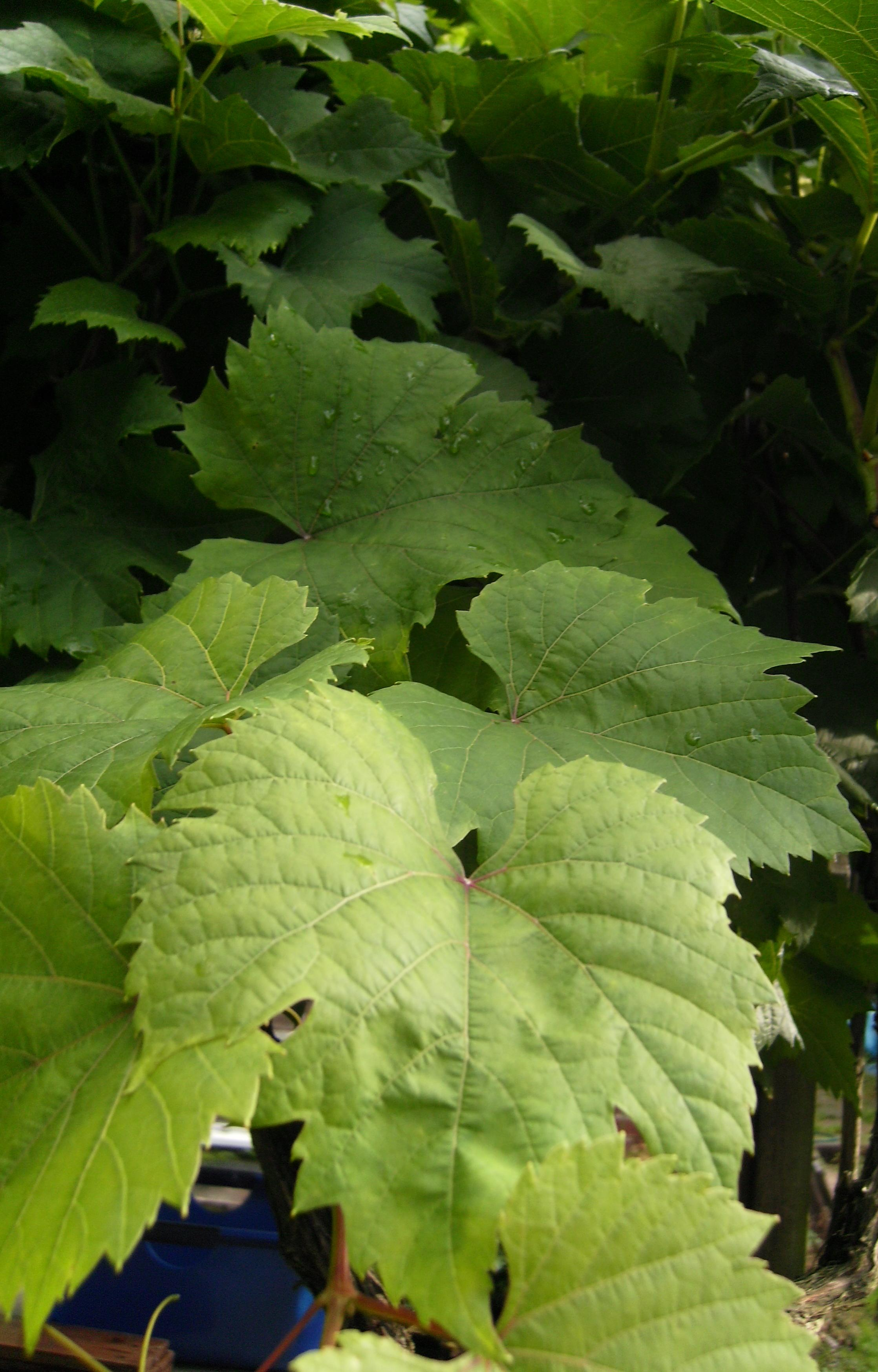 Leaves of Triomphe d'Alsace, a vine grown to produce red wines in England and the Netherlands.